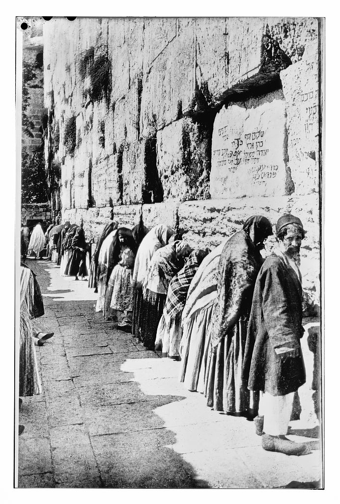 Jerusalem in the Ottoman period. Jews in Western Wall 1900-1920.